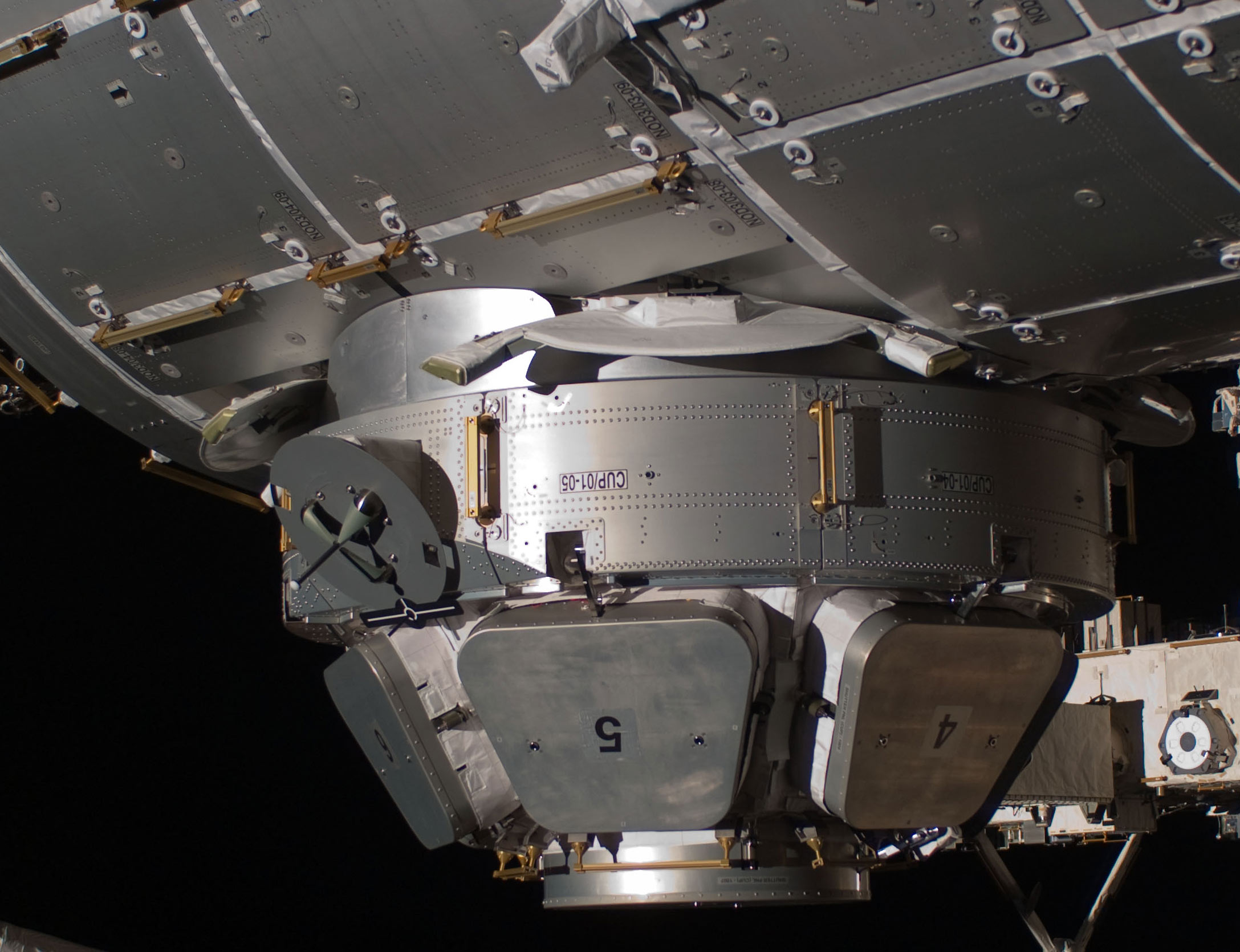 The International Space Station's Tranquility node and its Cupola are featured in this image photographed by a spacewalker during the mission's (STS-130) third and final session of extravehicular activity (EVA).